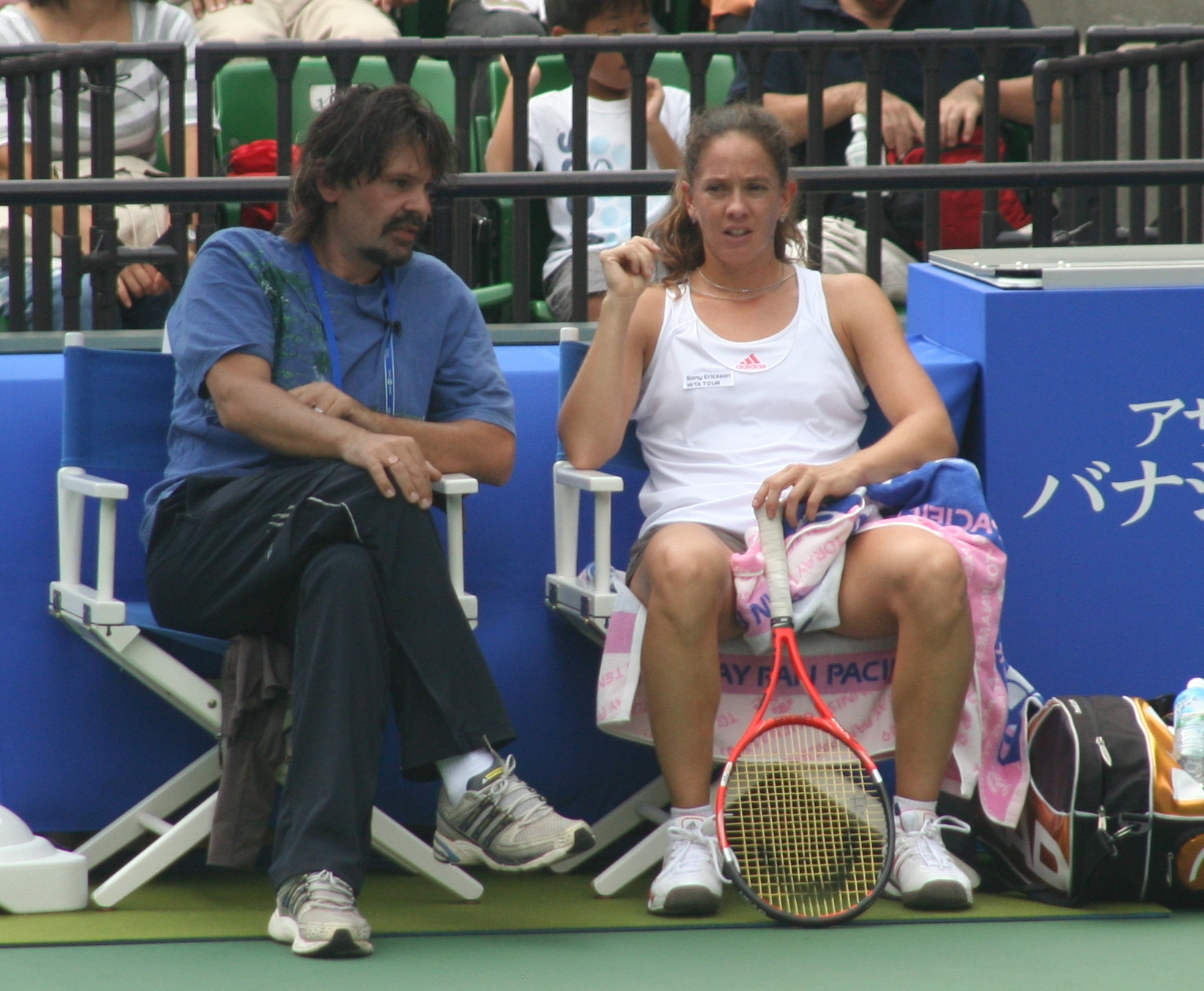 Swiss Tennis player Patty Schnyder with her coach and husband Rainer Hofmann on the opening day of the Toray Pan Pacific Open 2009 in Tokyo.